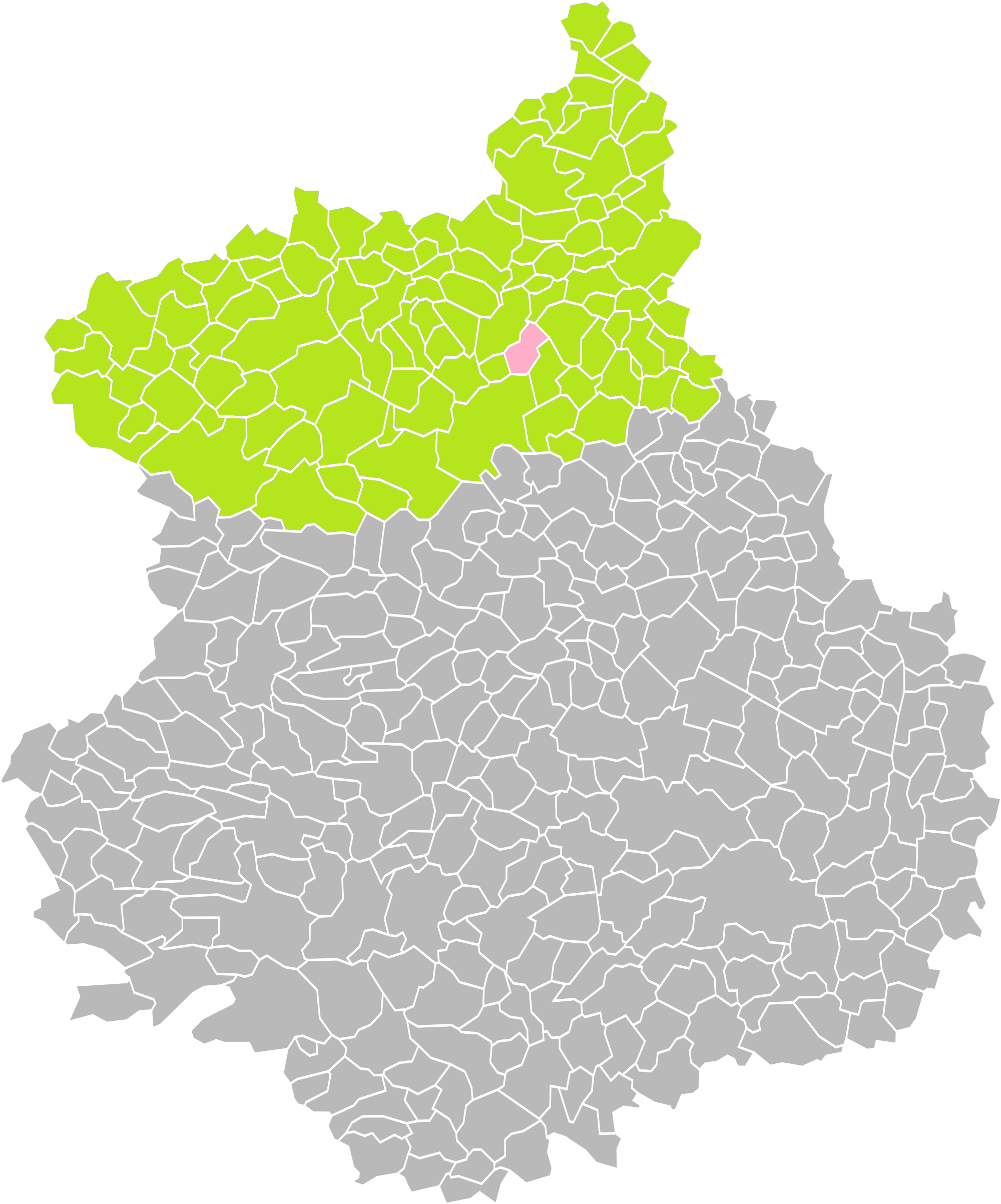 Location of the commune of Boullay-Mivoye in the arrondissement of Dreux (Eure-et-Loir)